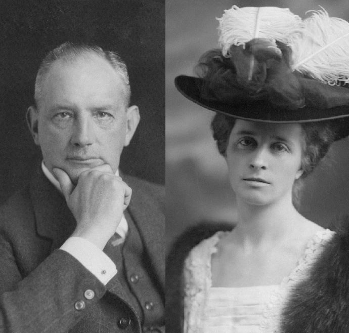 Walter von der Decken and his wife Ada von der Decken born Freiin zu Knigge